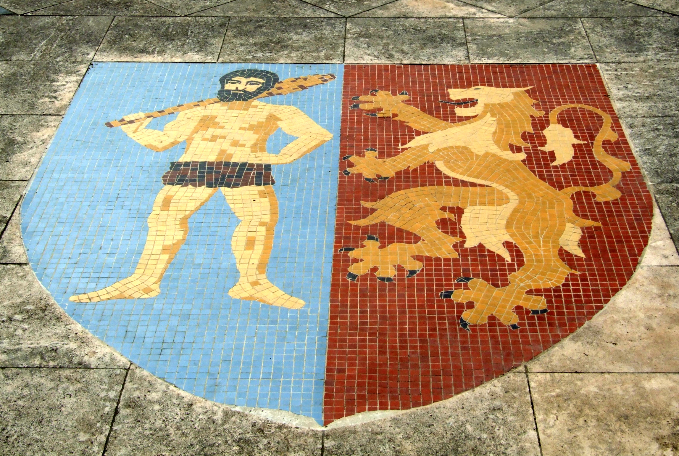 Mâlain castle, Burgundy, FRANCE